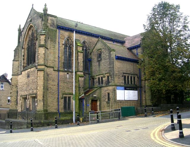 All Saints' church, Highfield Lane, Keighley, West Yorkshire, seen from the northeast